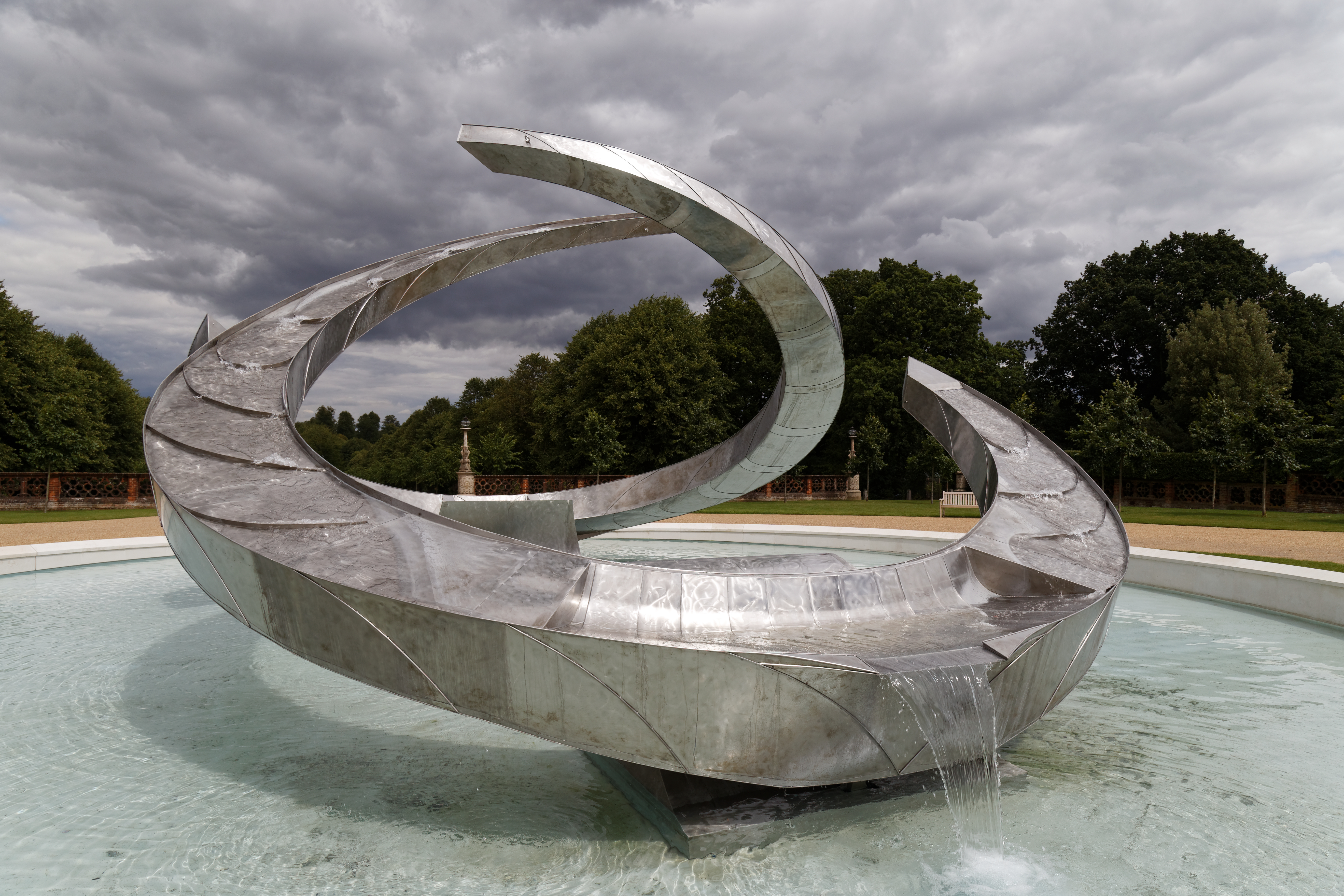 An abstract water sculpture on the north forecourt of Hatfield House in Hertfordshire, England.Software: RAW file lens-corrected, optimized and converted to JPEG with DxO OpticsPro 10 Elite, and likely further optimized and/or cropped and/or spun with Adobe Photoshop CS2.